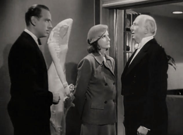 L. to R. : Melvyn Douglas, Greta Garbo & Richard Carle in Ninotchka - trailer (cropped screenshot)